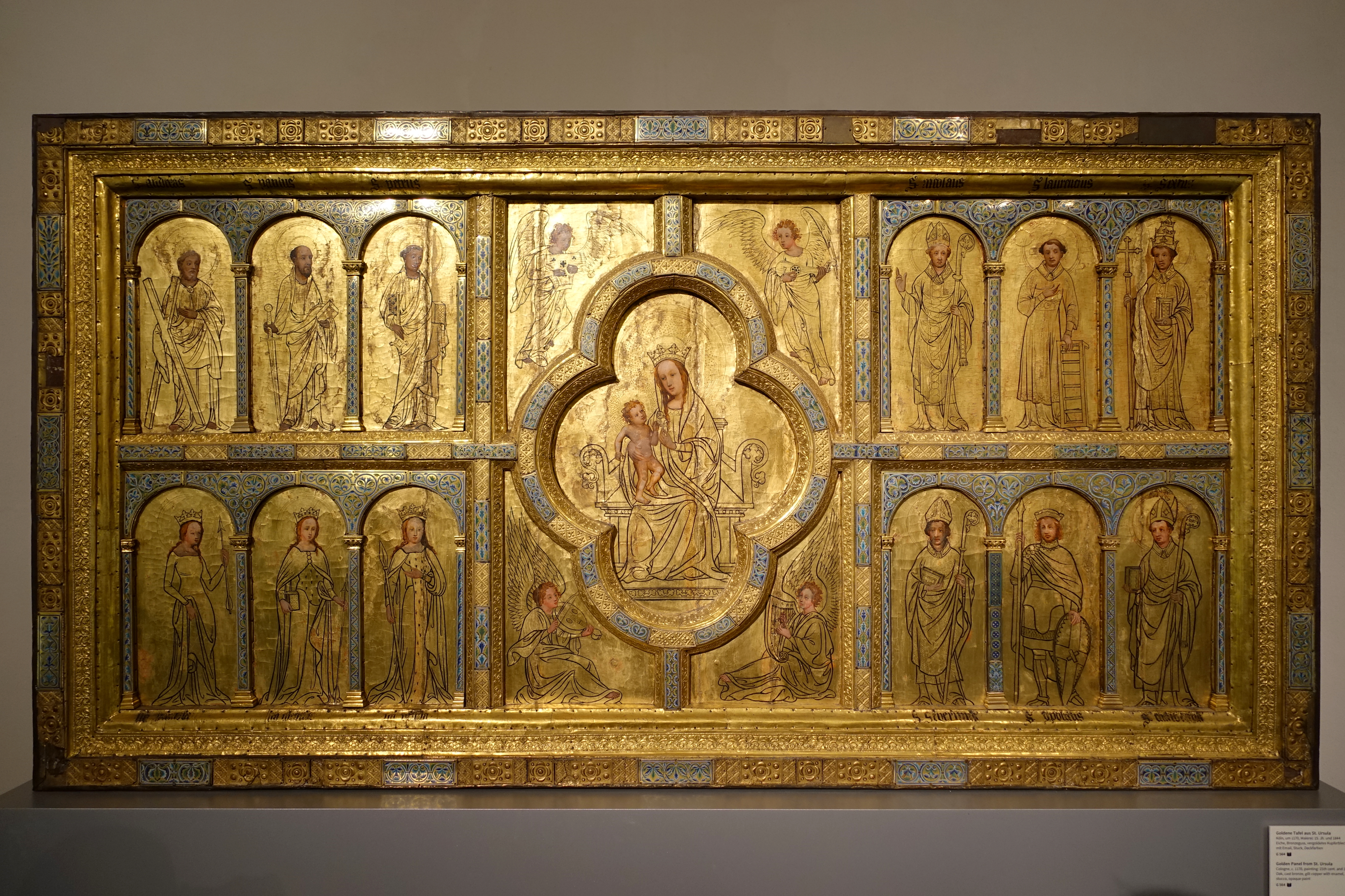 Exhibit in the Museum Schnütgen - Cologne, Germany.